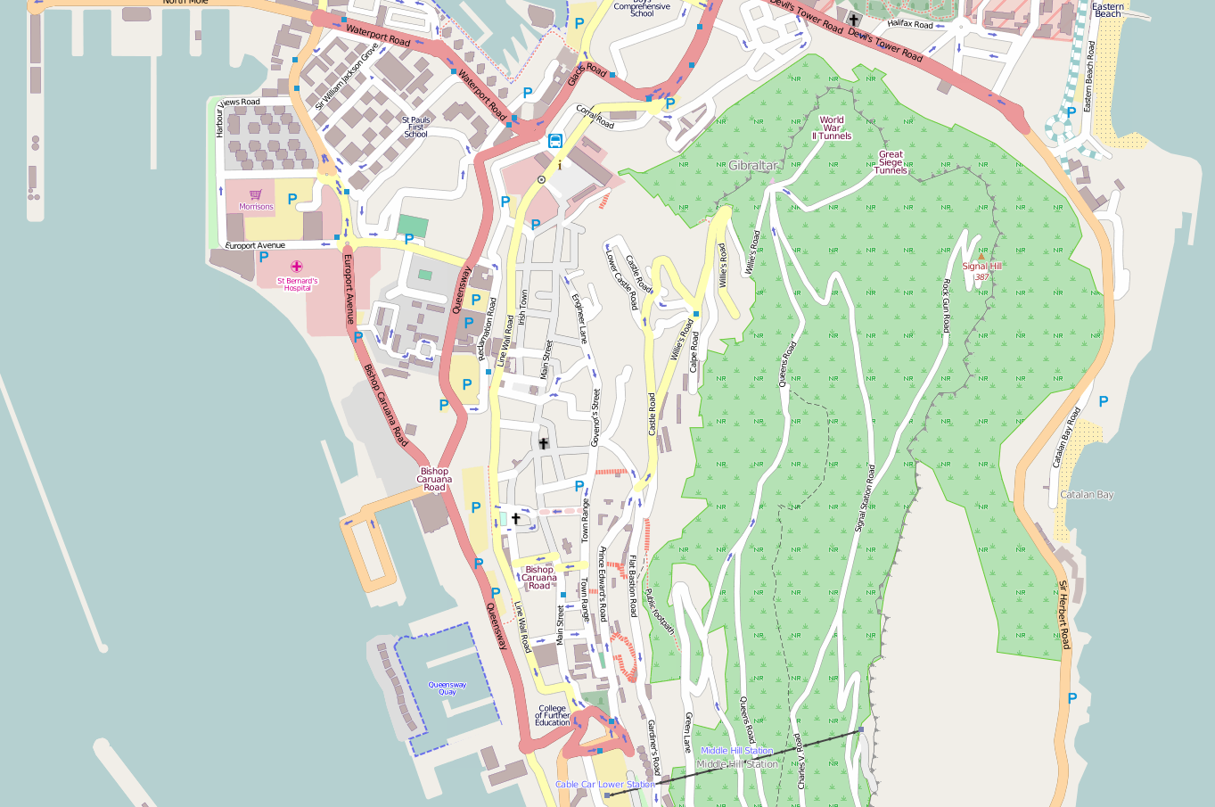 Roads in Gibraltar, mid